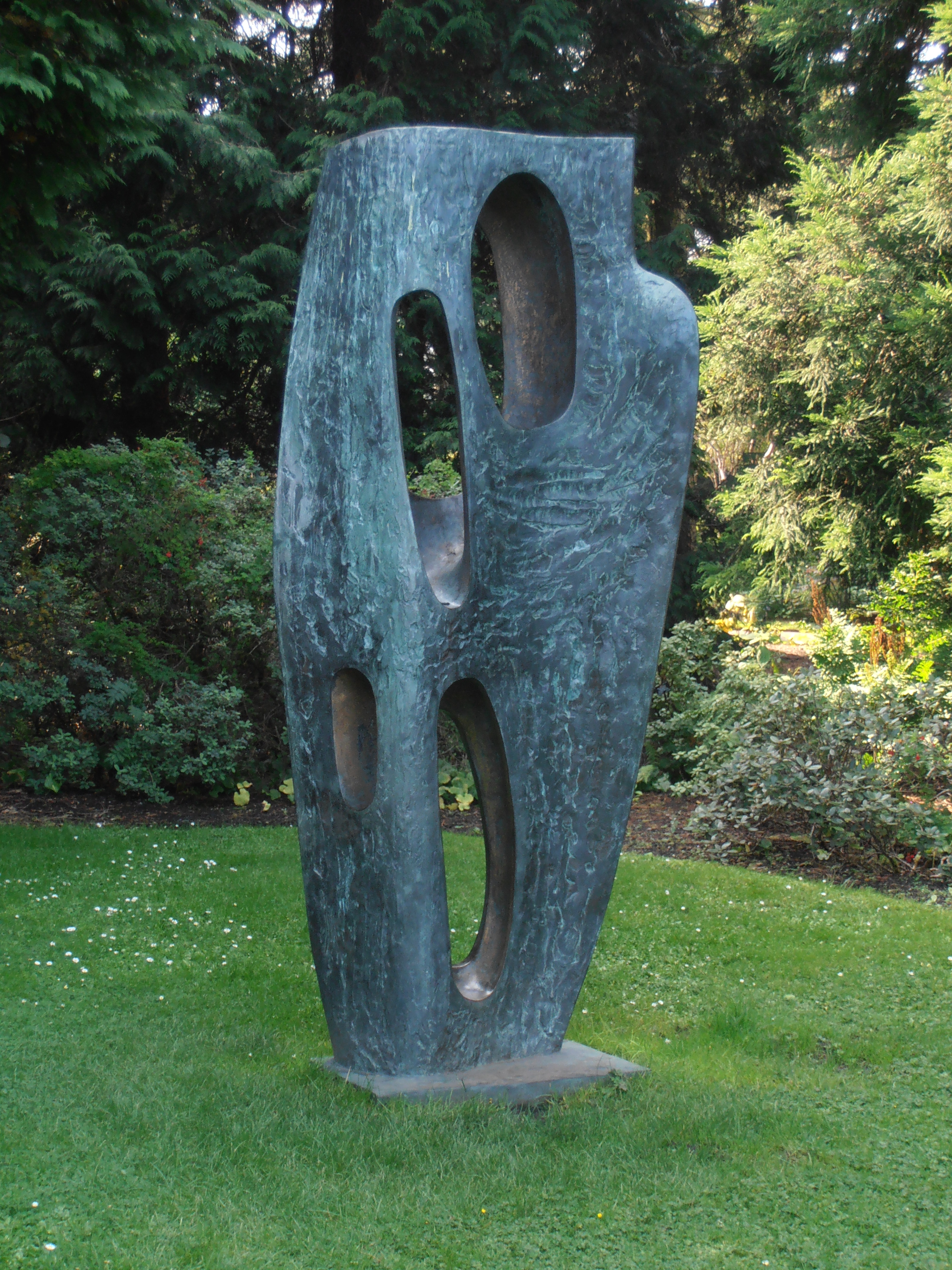 Rock Form (Porthcurno) (1964) by Barbara Hepworth, Royal Botanic Garden, Edinburgh